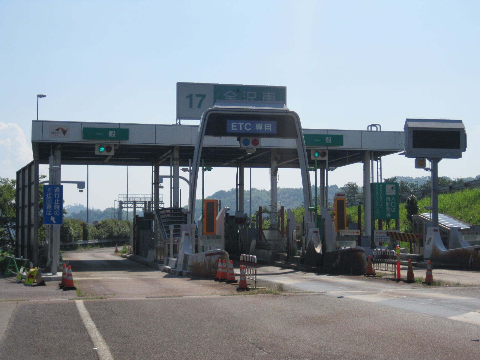 Kanazawa-Higashi Inter Change(Kanazawa city, Ishilkawa prefecture)